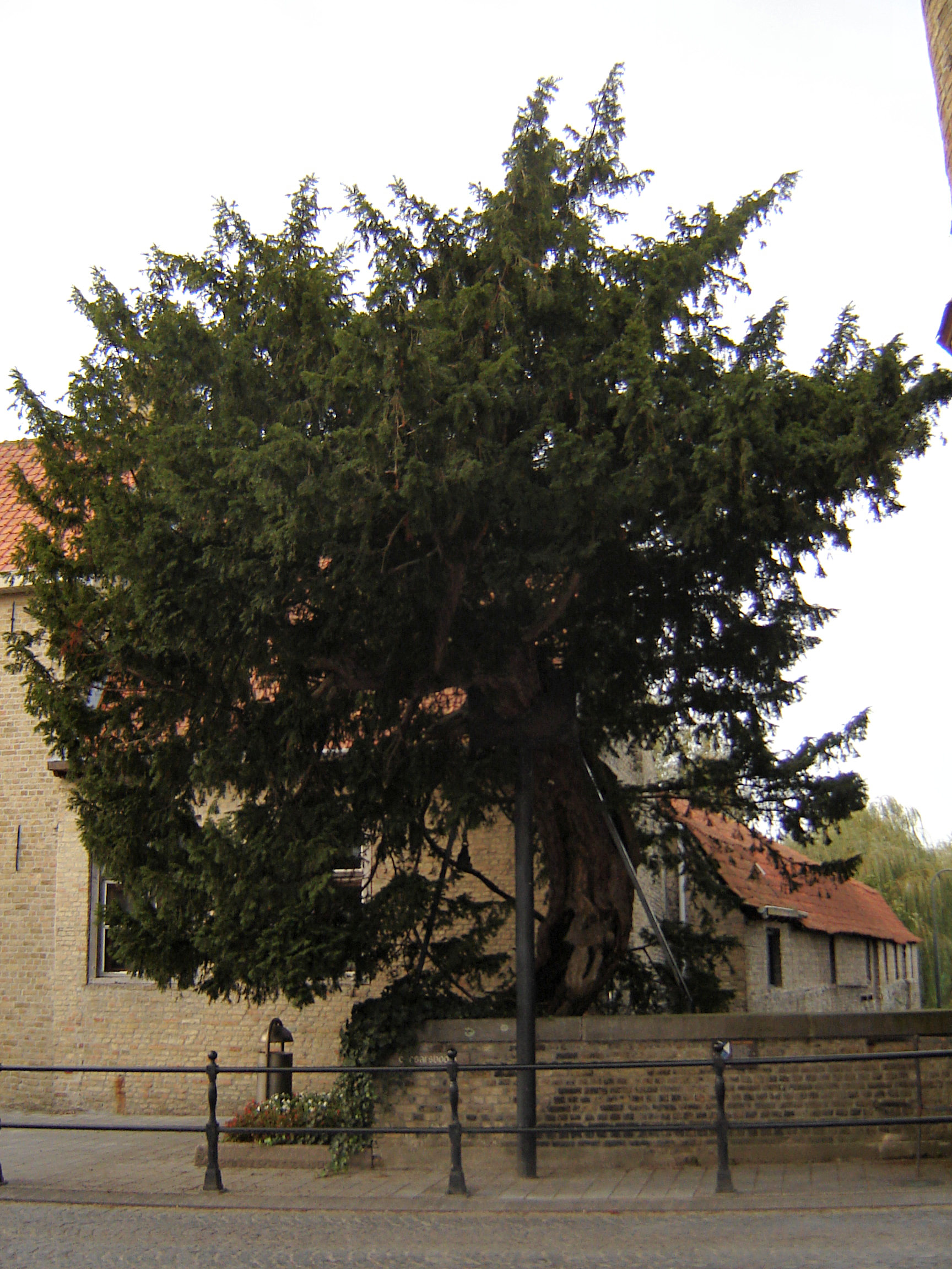 Caesarsboom (Caesar's Tree; Taxus baccata) in Lo, Lo-Reninge, West-Flanders, Belgium